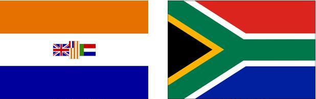 Old and new flags of South Africa.